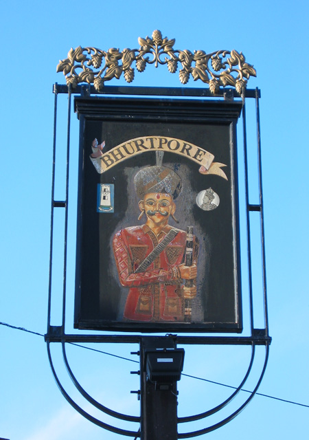 The Bhurtpore Inn sign, near to Aston, Cheshire, England. The Bhurtpore Inn in Aston dates from around 1720, and was so named in 1826 to commemorate the Siege of Bhurtpore at which local landowner Sir Stapleton Cotton (later Viscount Combermere) was Commander-in-Chief. A former pub in nearby Wrenbury was named Salamanca Hotel after another victory (see Salamanca House, Wrenbury). The pub's website.